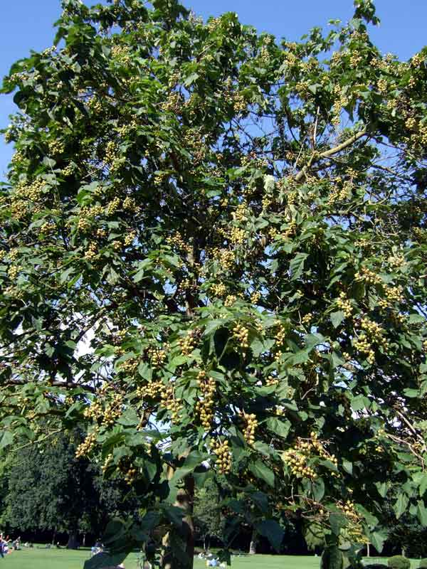 Paulownia tomentosa